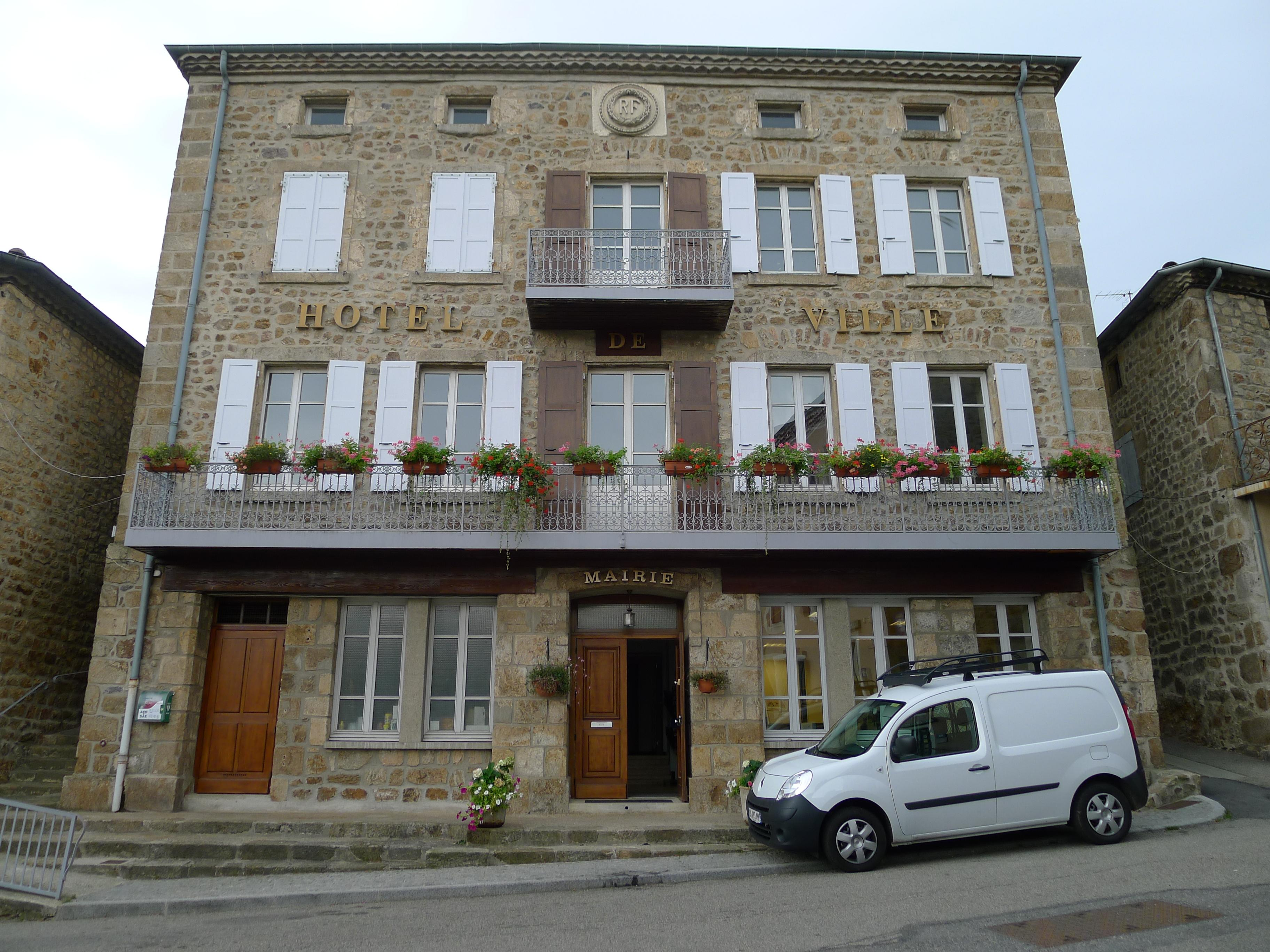 Town hall of Saint-Félicien - Ardèche - France